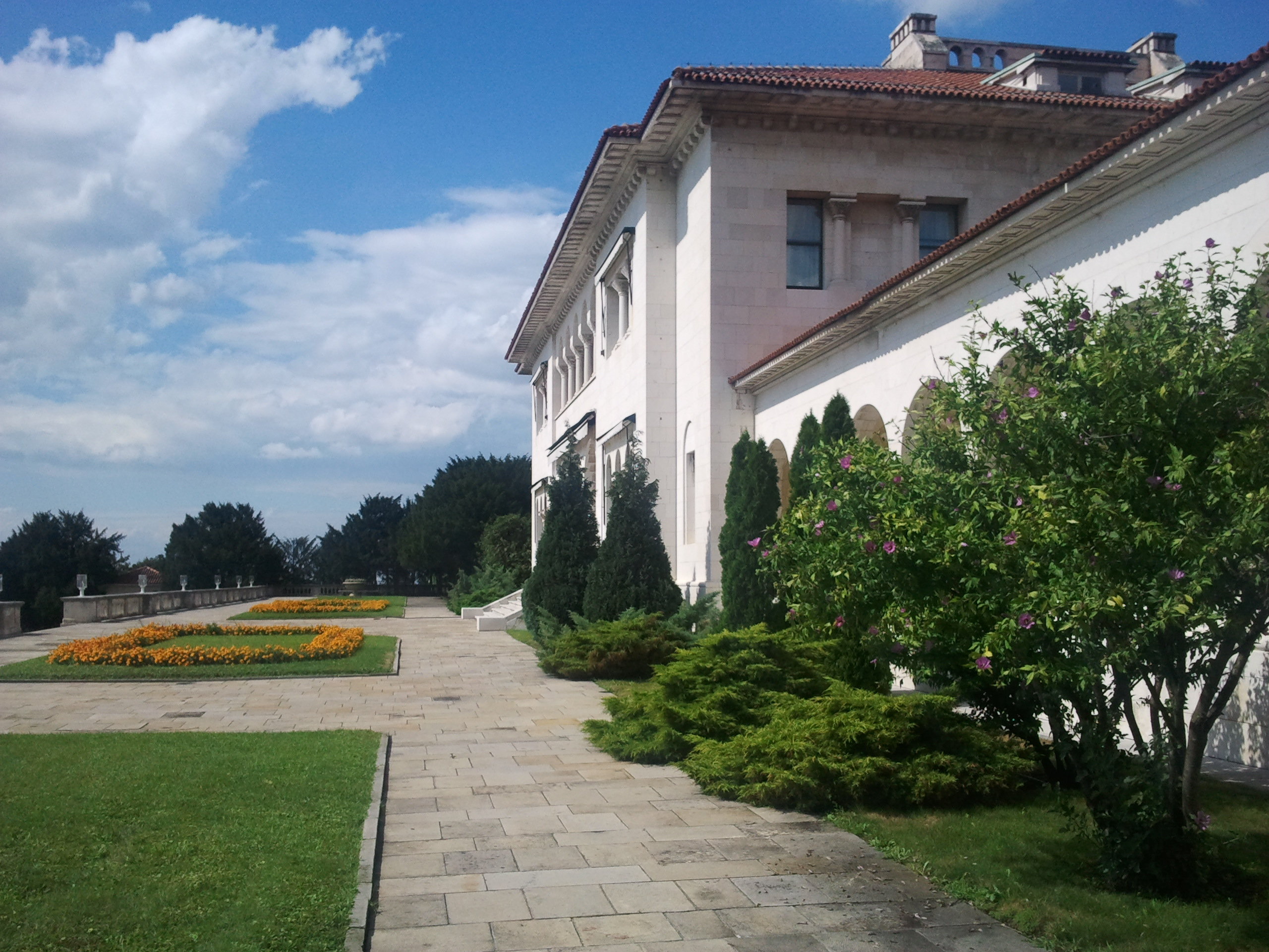 The Old Court, part of the Royal Complex